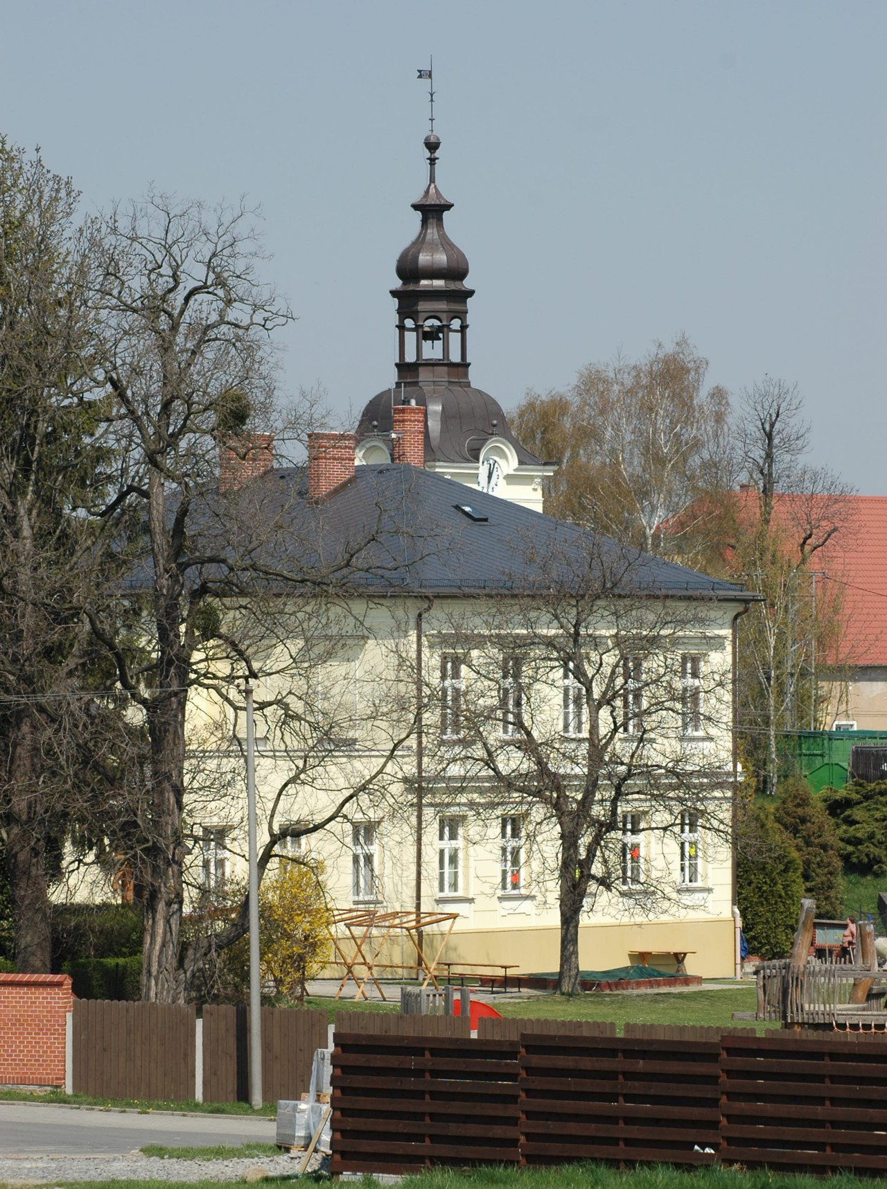 Building of kindergarten in Holasovice, Czech Republic